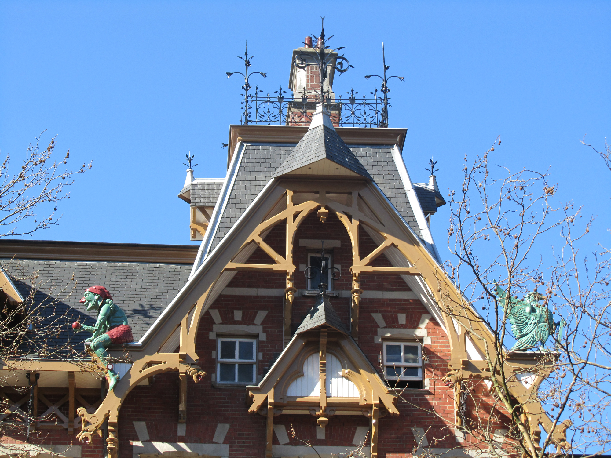 Huis met de Kabouters, Ceintuurbaan, Amsterdam. Detail of the roof.